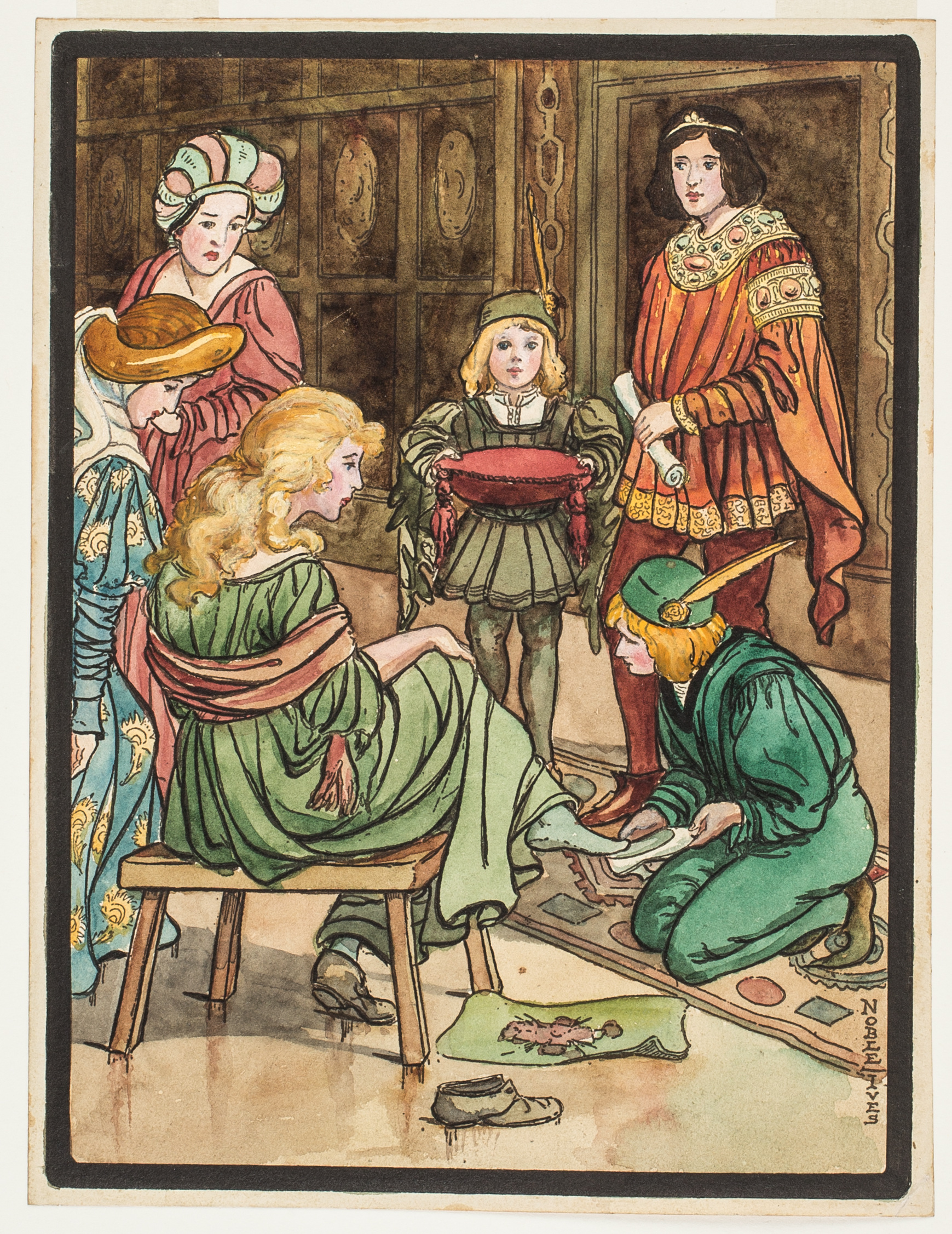 Sarah Noble Ives, “Trying on the Slipper,” from Cinderella. Watercolor, pen and ink, ca. 1912. Original artwork for the book published by McLoughlin Brothers.